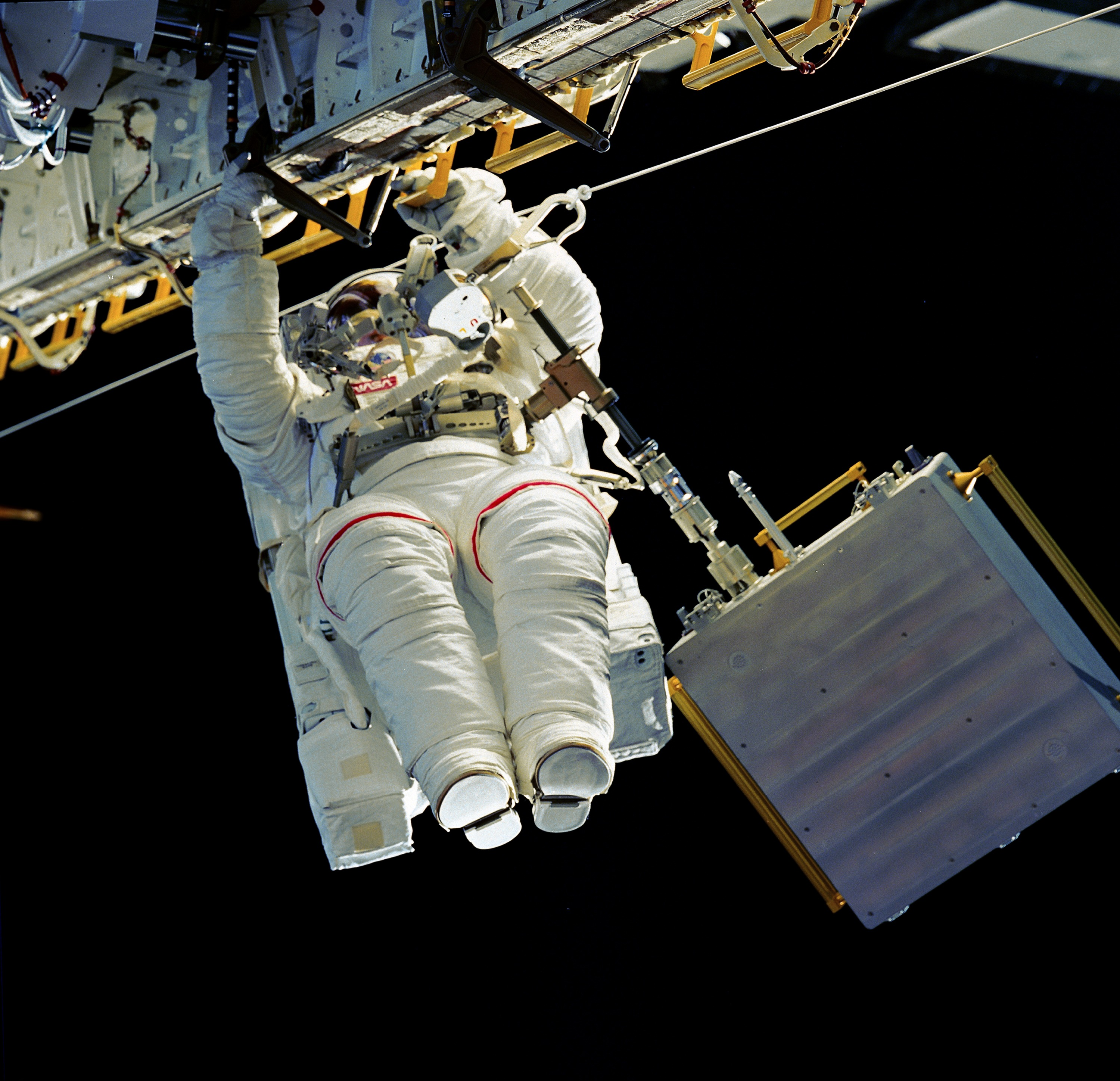 Toting the Mir Environmental Effects Payload (MEEP), astronaut Linda M. Godwin, mission specialist, translates along the longeron of the Space Shuttle Atlantis' cargo bay starboard side during the March 27, 1996, Extravehicular Activity (EVA). During the docked phase of the mission, astronauts Godwin and Michael R. (Rich) Clifford teamed to mount the MEEP experiments on the Russian Mir Space Station Docking Module (DM). The experiments will collect micrometeoroid debris for more than a year. The MEEP experiments will be removed from the DM by United States astronauts on a future Mir docking mission and returned to Earth.